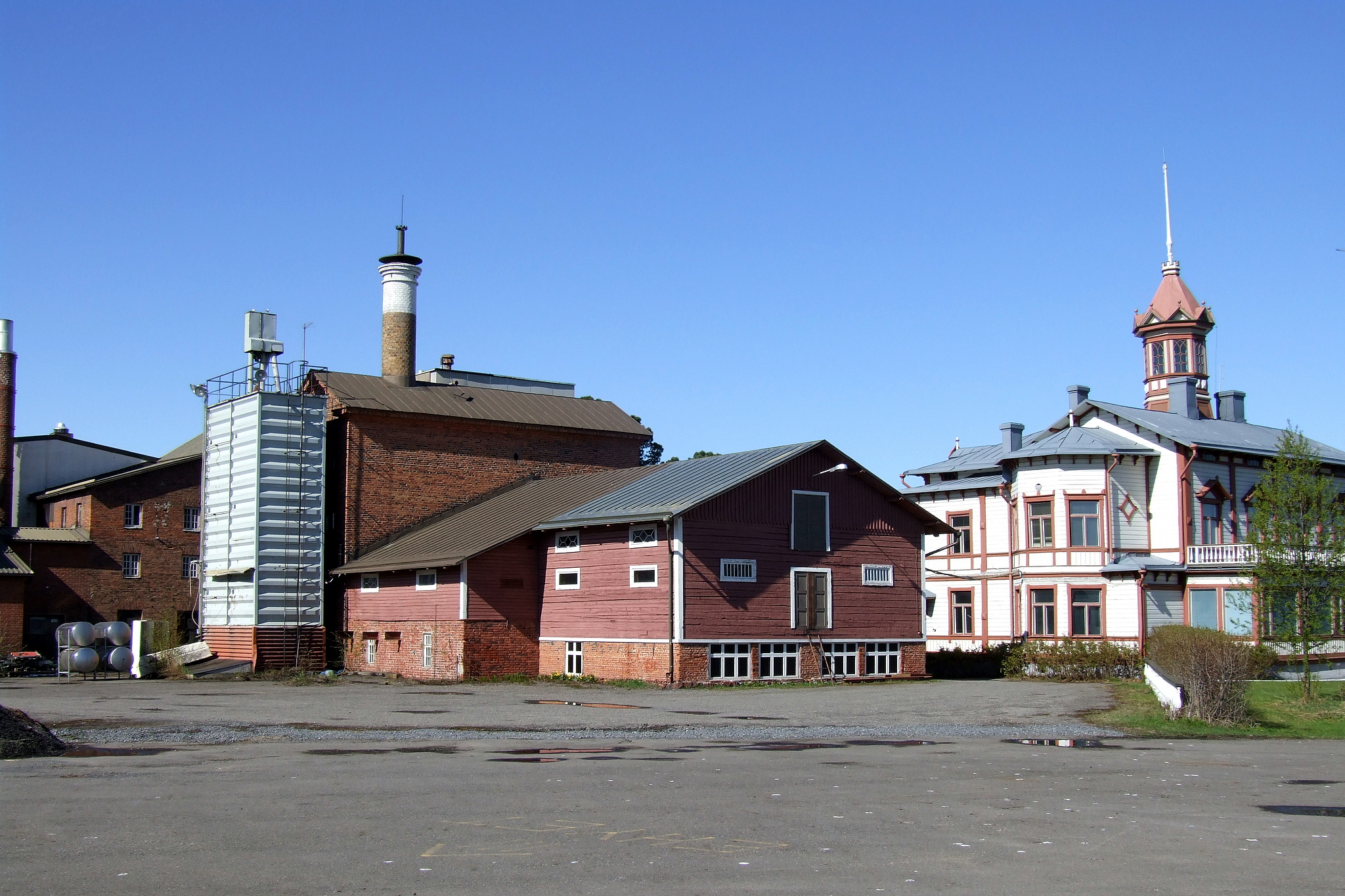 Buildings of the Toppilan Mallasjuomatehdas brewery in Oulu, Finland.